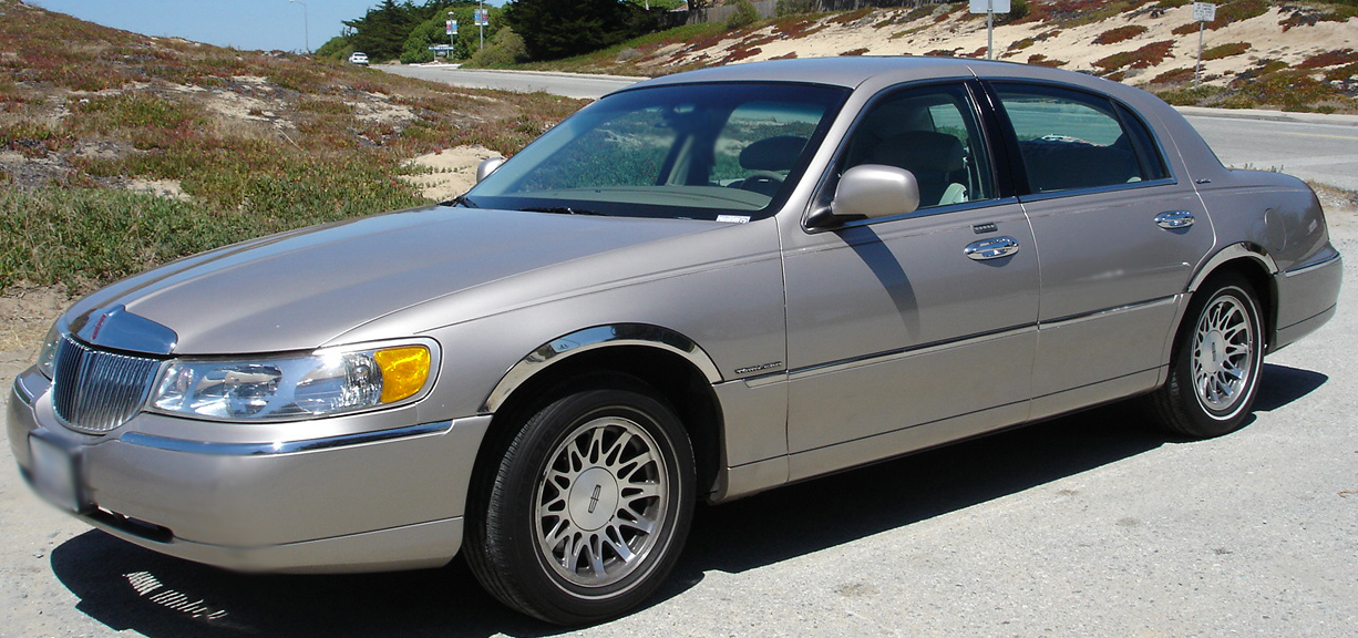 1998 - 2002 Lincoln Town Car Picture by Gerdbrendel for Wikipedia Town Car article